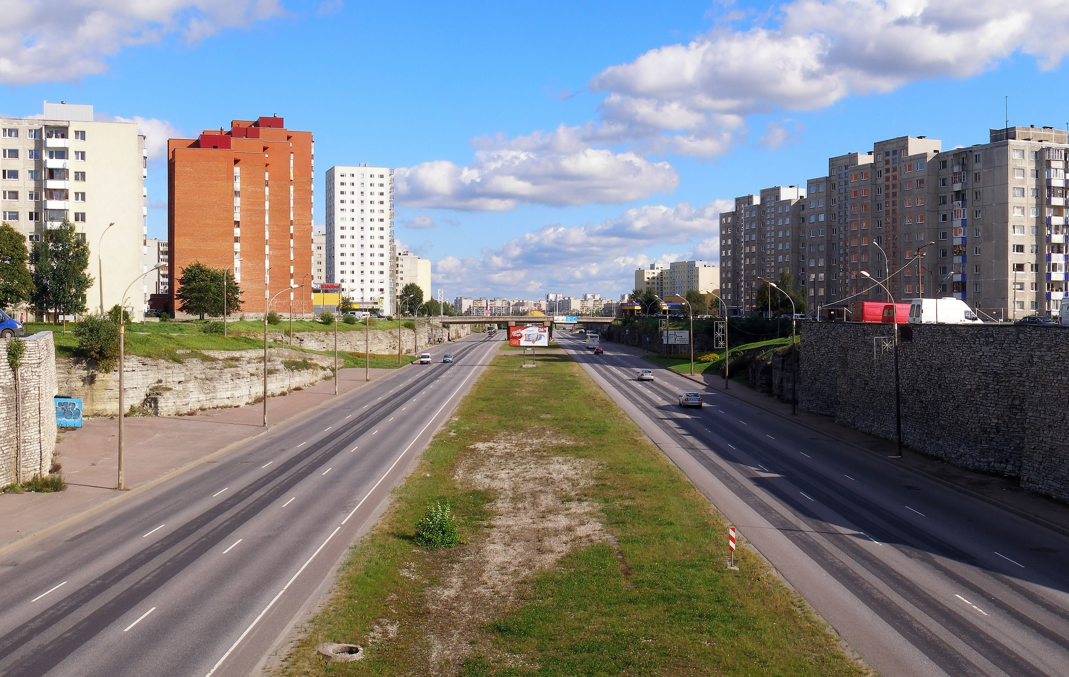 Laagna Road, the main artery of the Lasnamäe district of Tallinn.